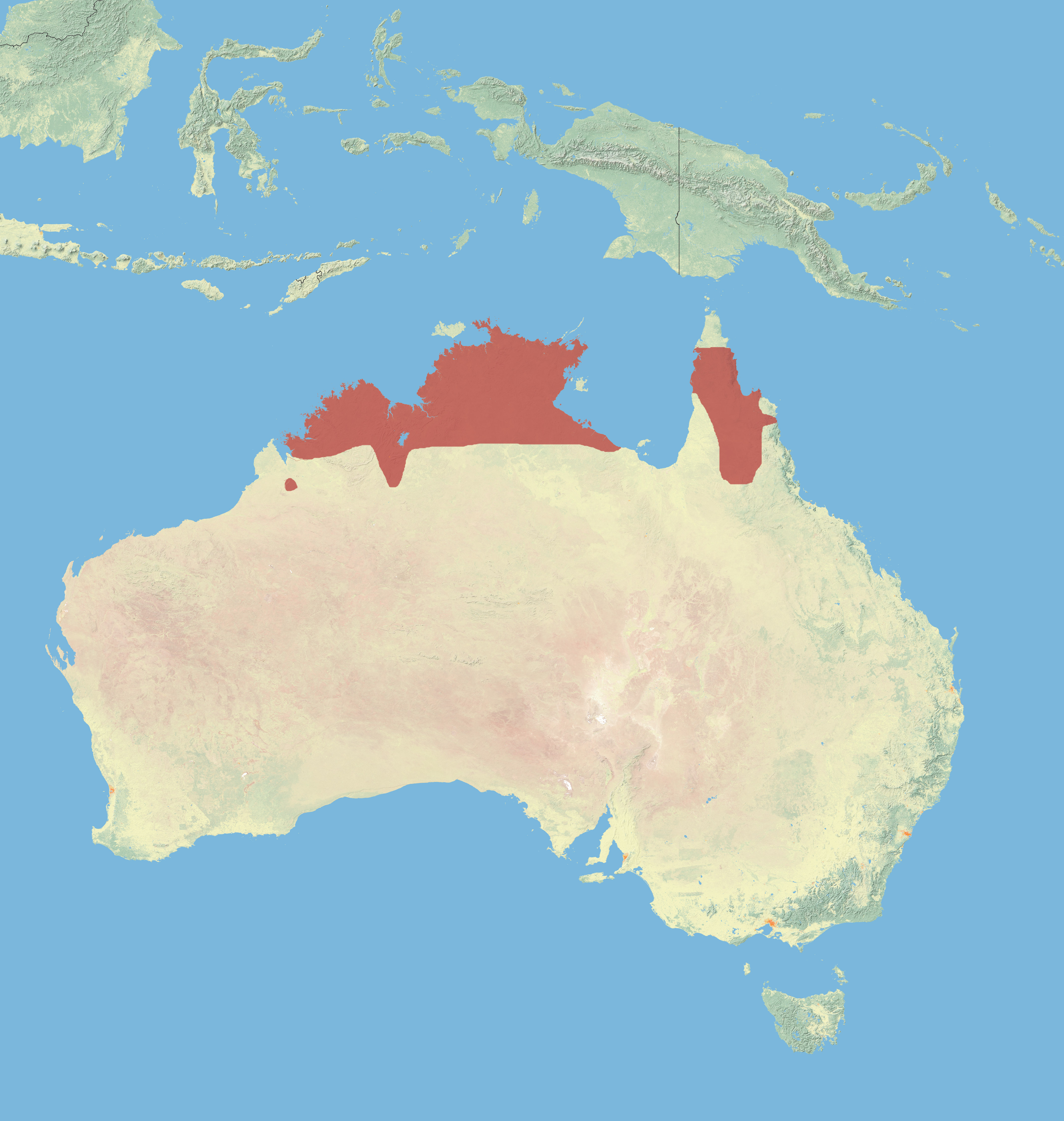 The Distribution of the Antiilopine Kangaroo According to the IUCN